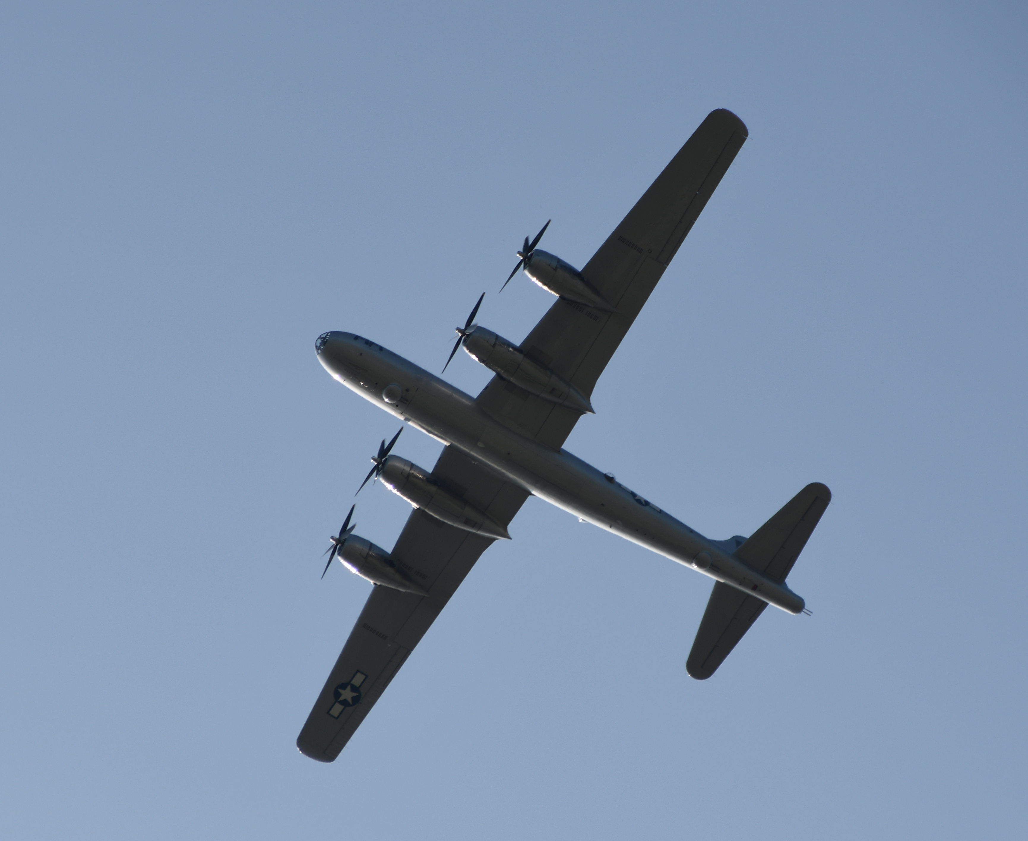 B-29 FIFI at Oshkosh 2019